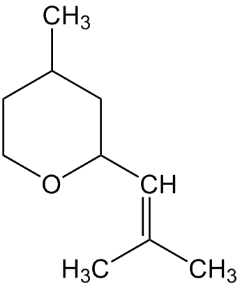 Rosenoxide